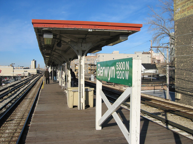 Berwyn station on the Chicago 'L' red line. The green signage showed that the station was a B station under the CTA's skip-stop system; although the skip-stop system was abandoned in 1995 this signage remained in place until it was finally replaced in 2006.